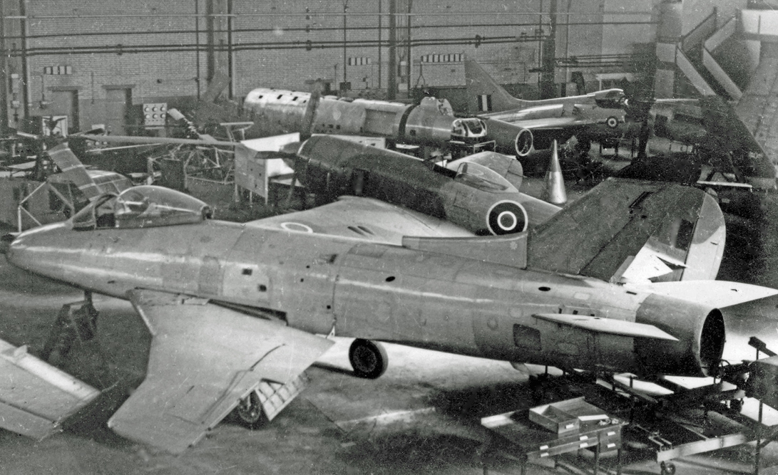 Supermarine 545 XA181 in use at Cranfield Airport as a training airframe in 1960